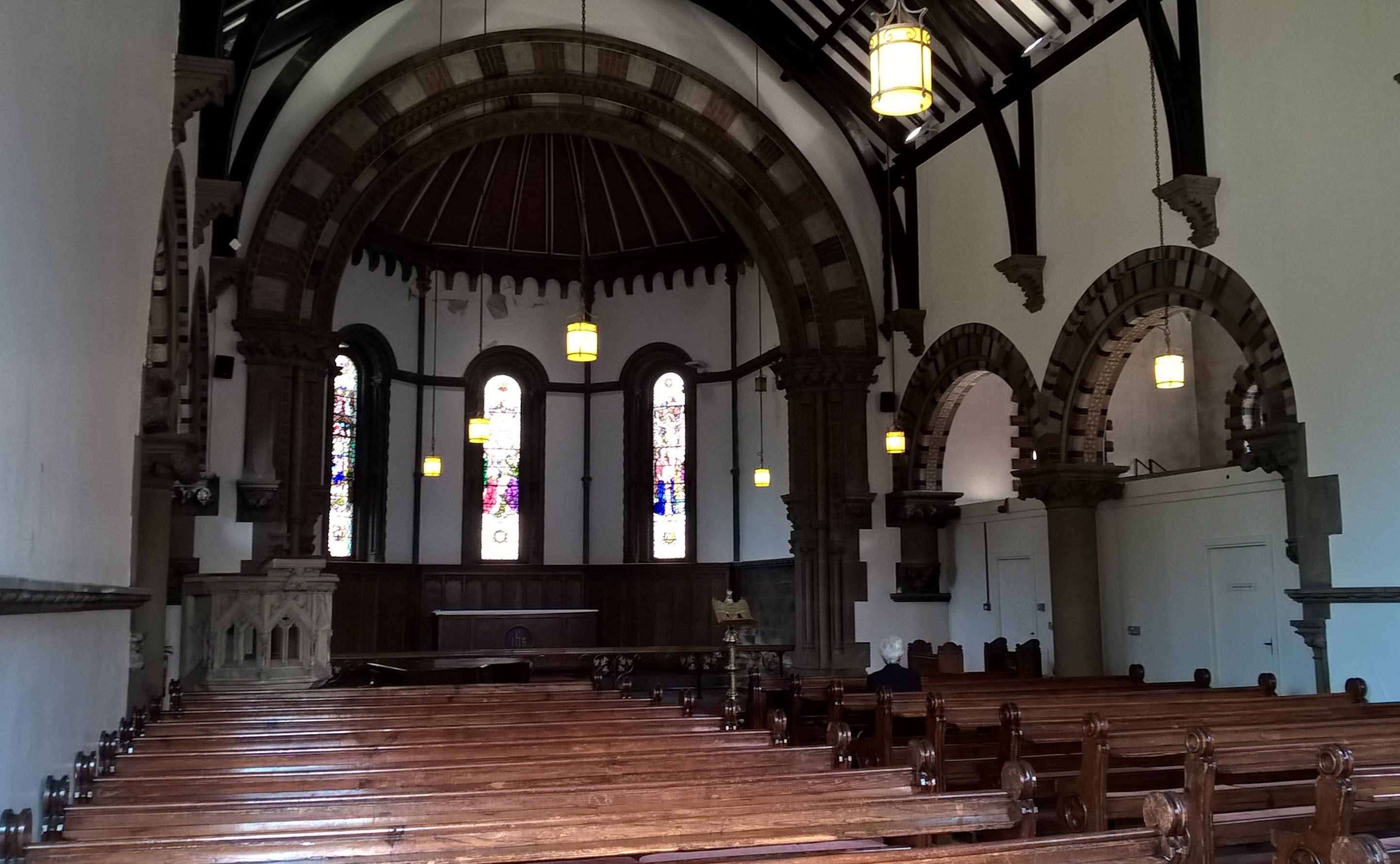 Interior of the chapel at St James's University Hospital, Beckett Street, Leeds. Completed 1861.